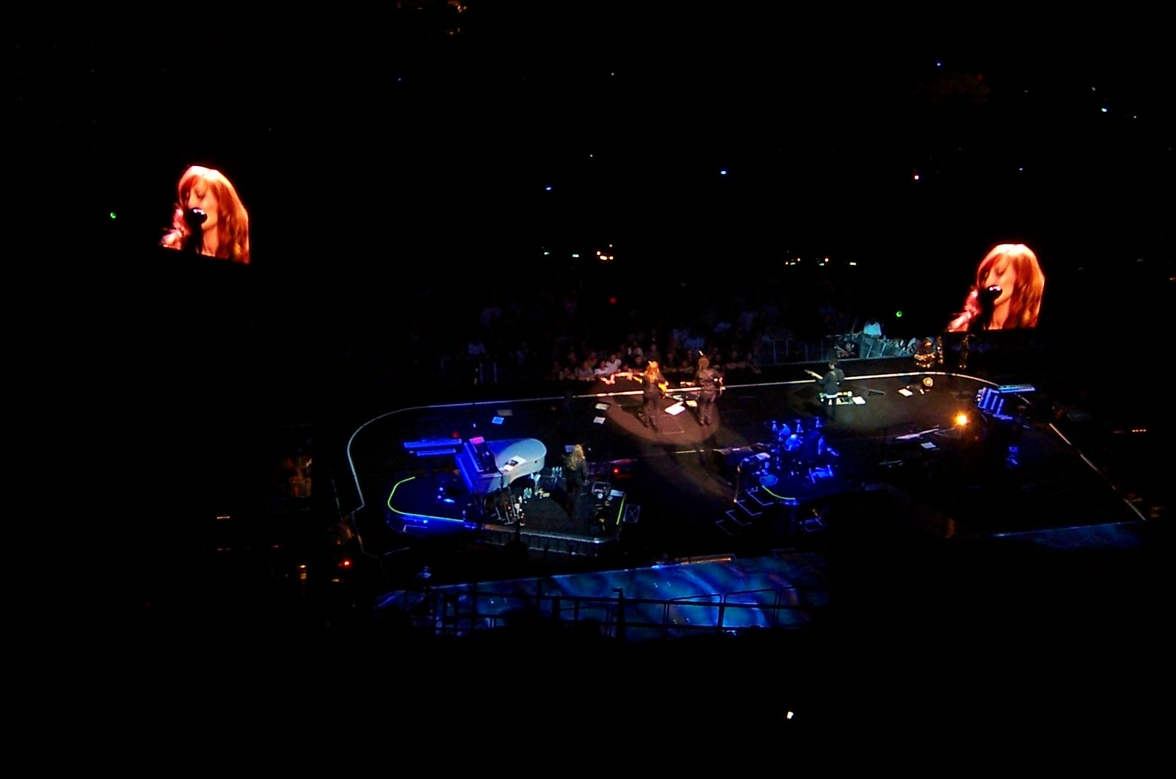 Patti Scialfa performs one of her songs in its entirety with the E Street Band for the first time. Hartford Civic Center, 2 October 2007. Taken by me.